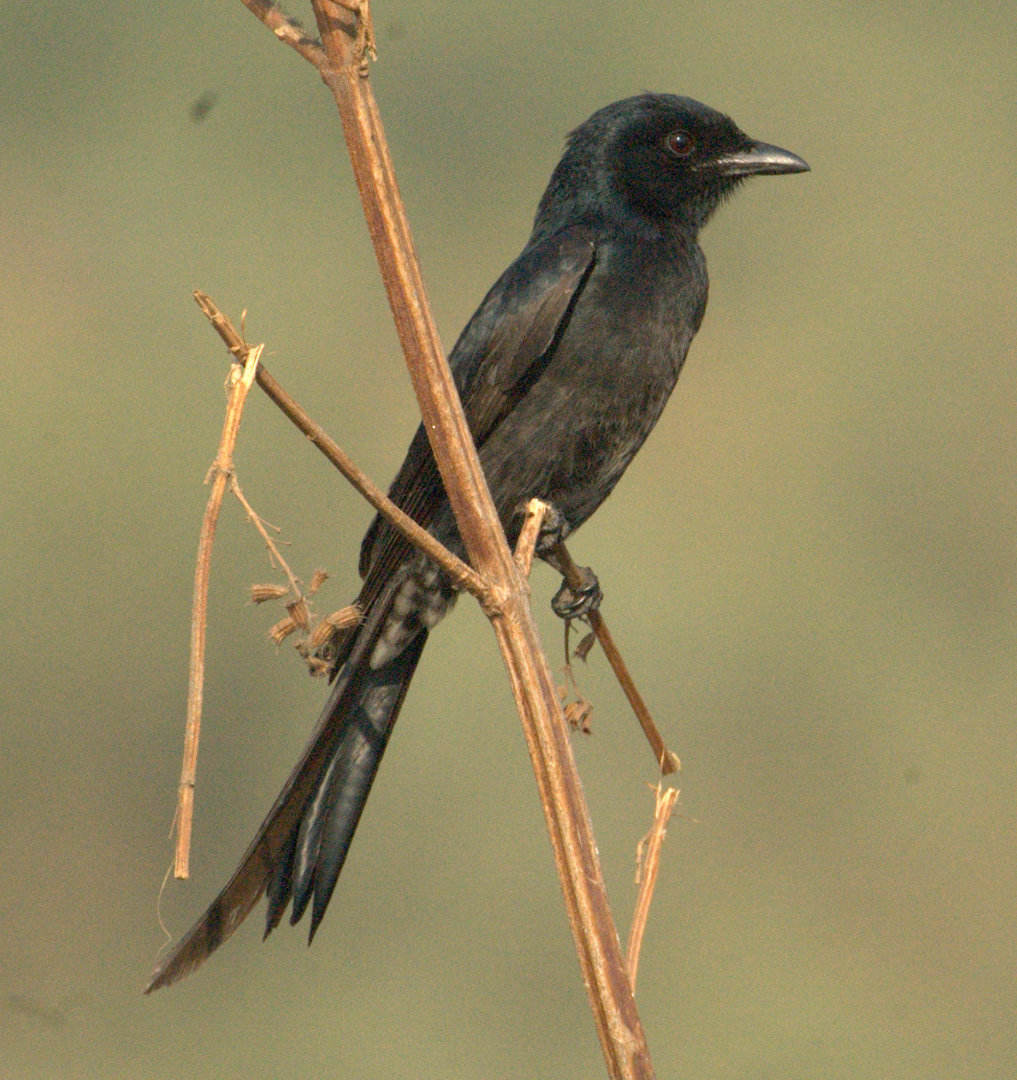 Black Drongo Dicrurus macrocercus